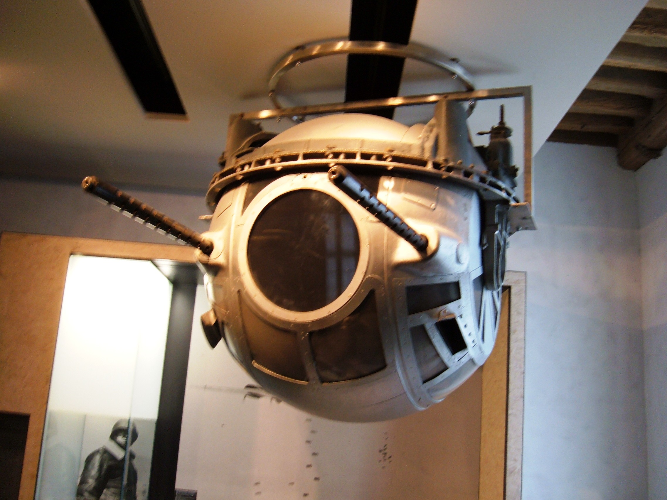 Belly turret of a Boeing B-17 Flying Fortress on display in the Musee de l'Armee, Paris, France.